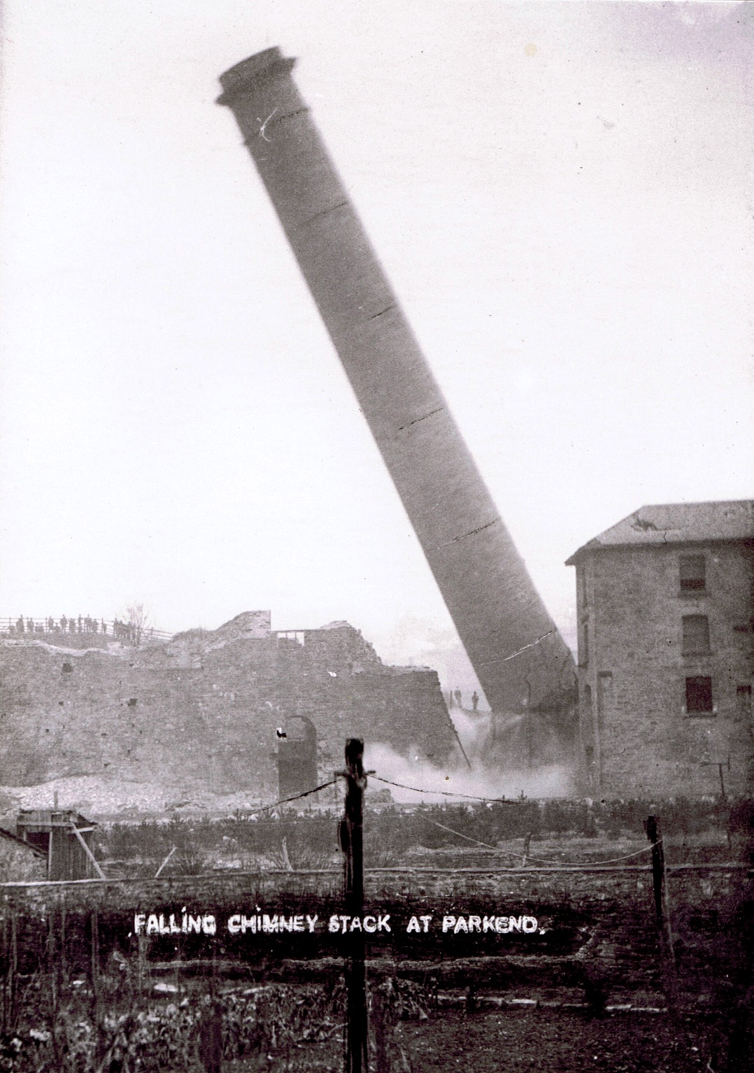 Falling chumney stack at Parkend Ironworks